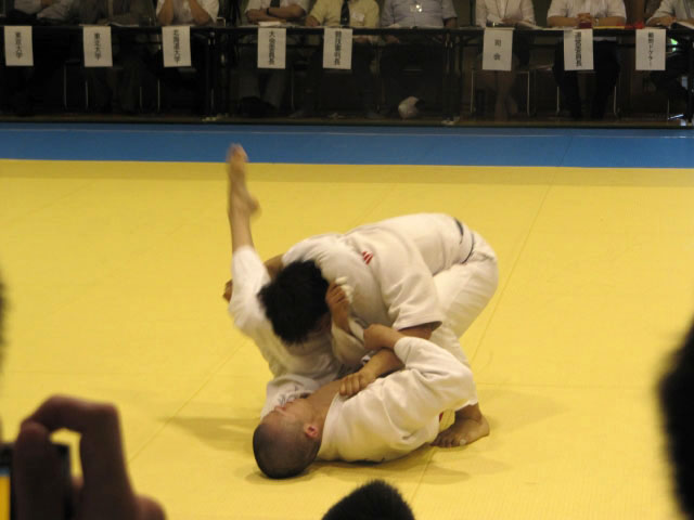 nanateijudo